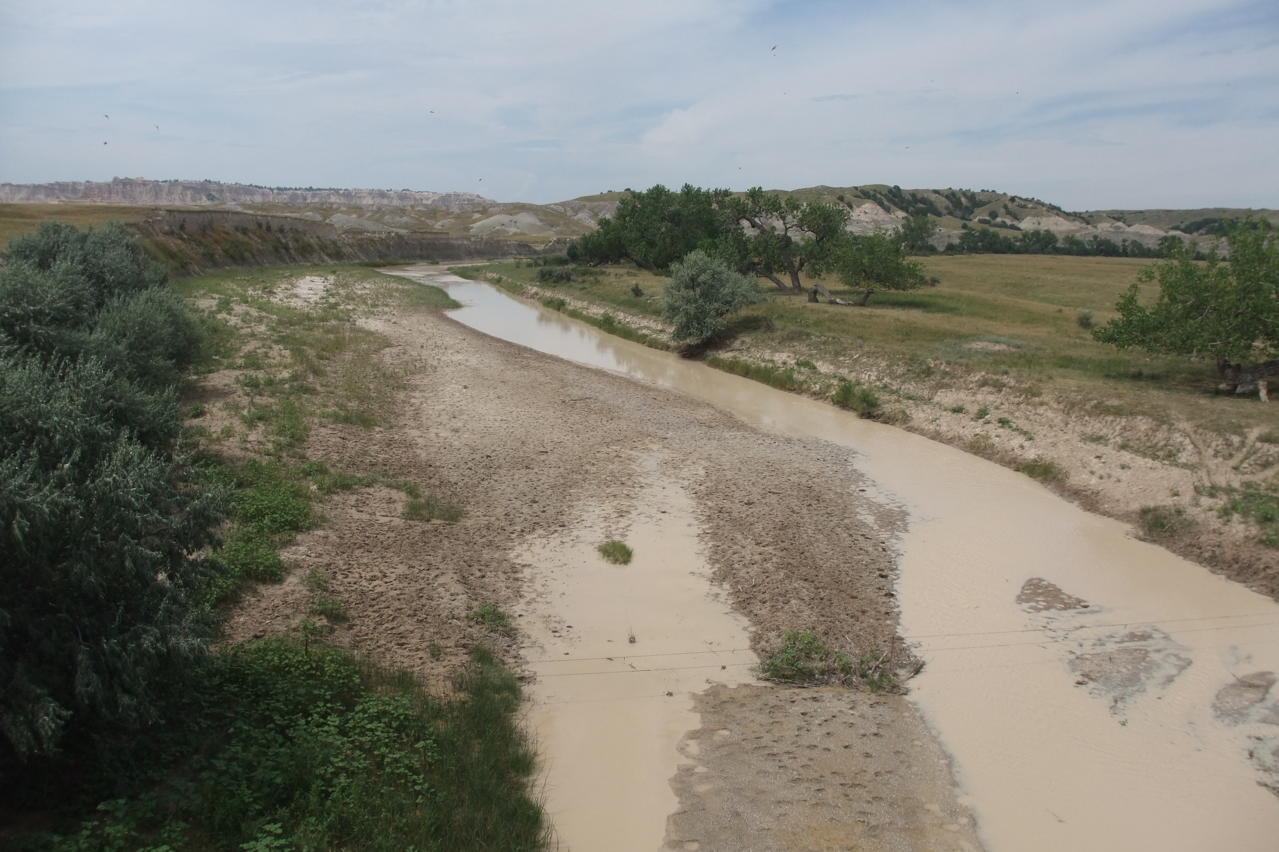 The White River - In the Badlands National Park, SD - View from the bridge on the runway at BIA Hwy2 - Cuny Table Road